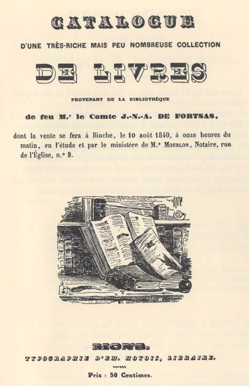 In July 1840, Renier Chalon committed the Fortsas hoax: an auction catalogue of non-existent books which were allegedly from the estate of the fictitious "Comte de Forsas".